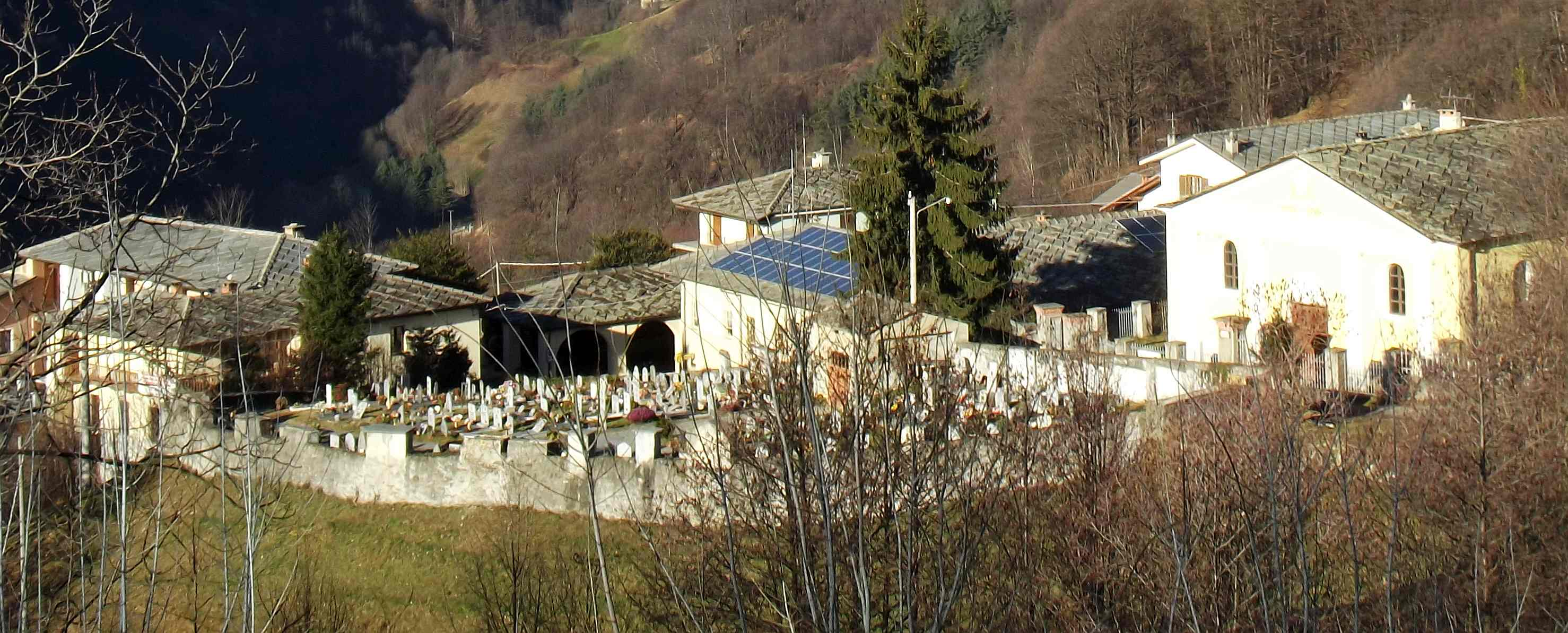 Angrogna (TO, Italy): panorama